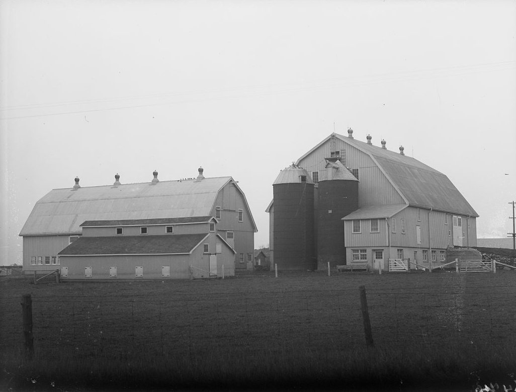 The "Donlands" farm, located at between Don Mills Road and the banks of the Don River, on the present-day site of Flemingdon Park, owned by former Toronto mayor Robert John (R.J.) Fleming. Toronto, Ontario, Canada.